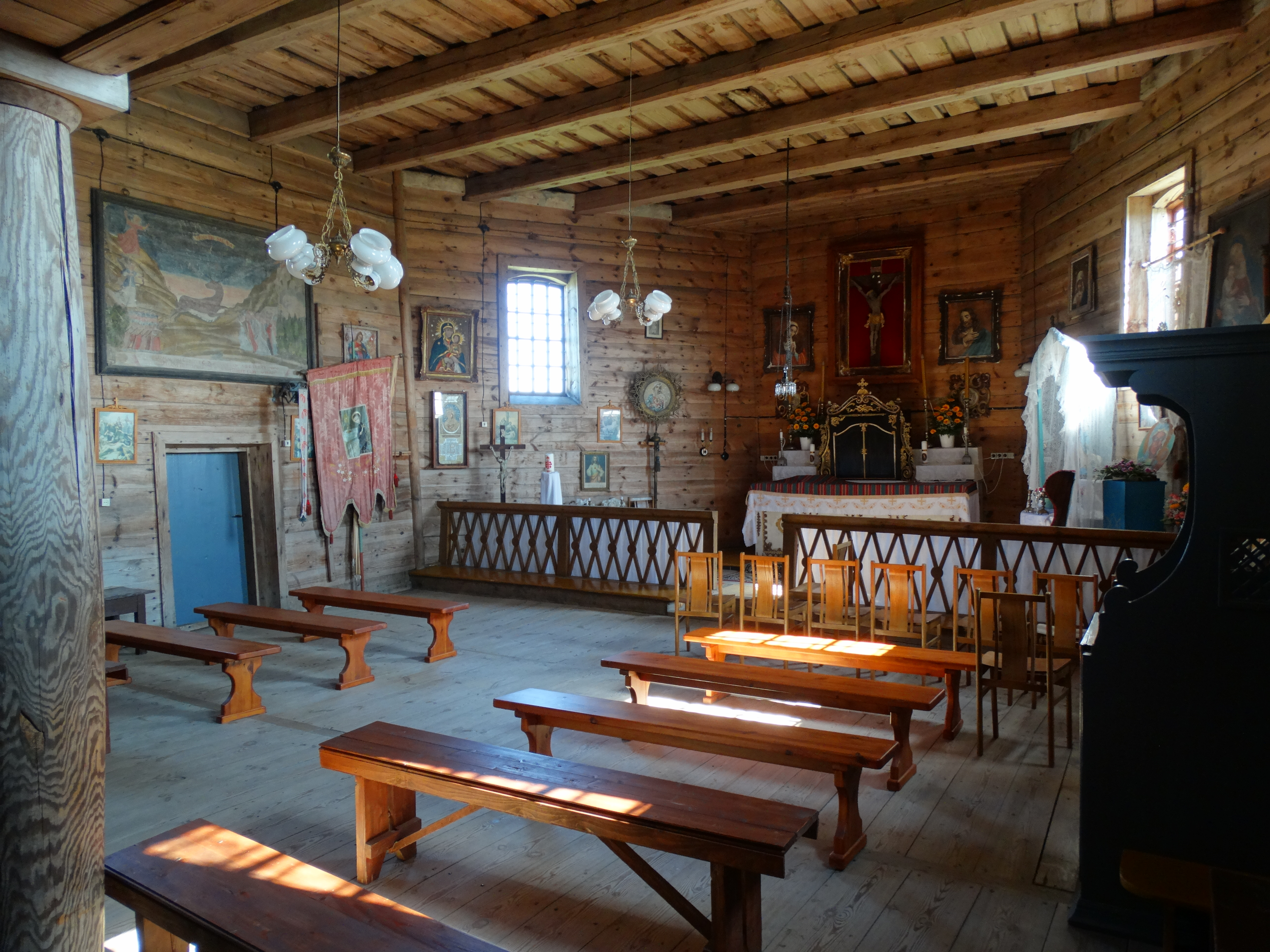 Chapel, Skurbutėnai, Vilnius District, Lithuania